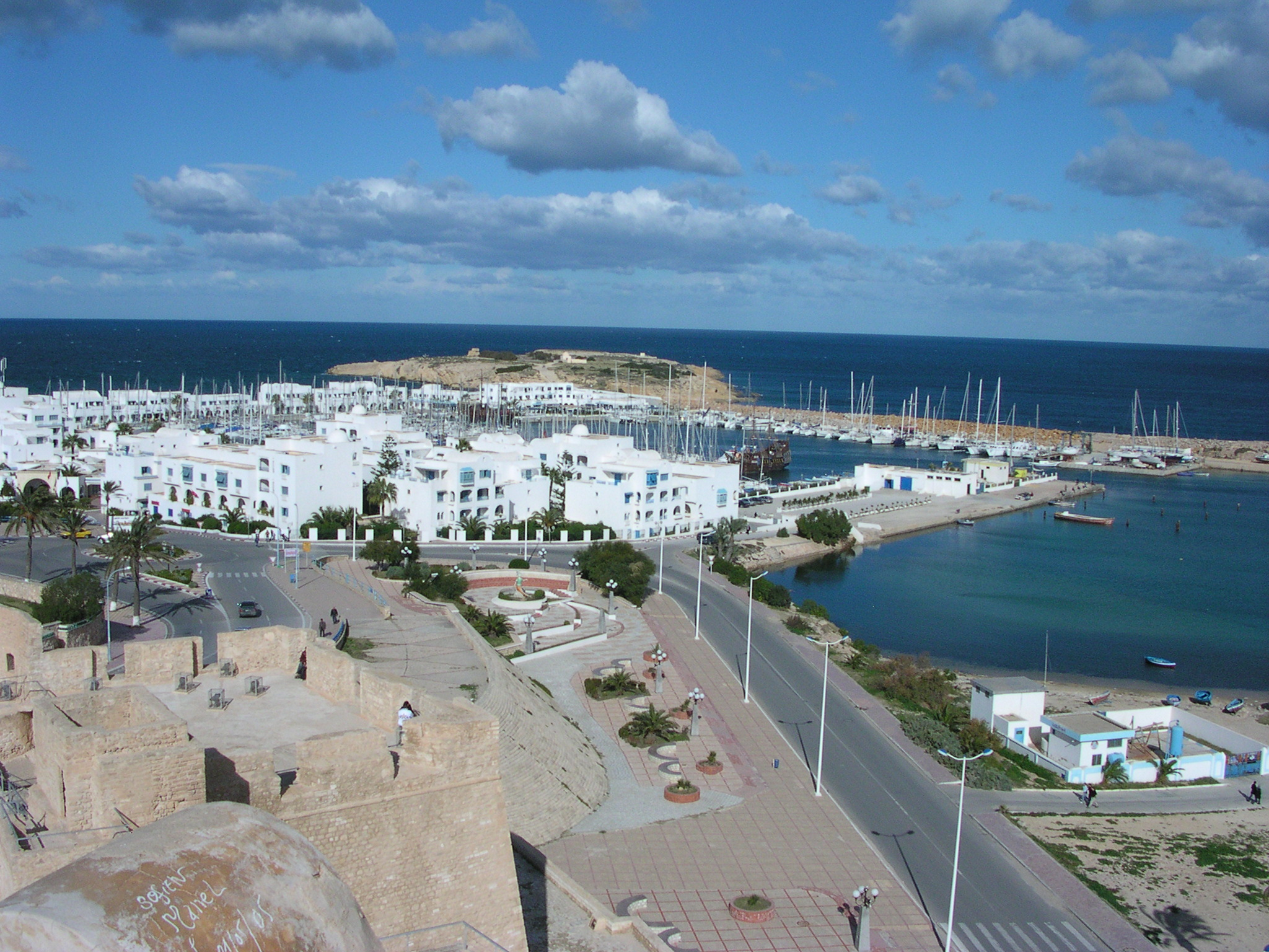 A view of Monastir port of plaisance from the ribat tower, Monastir, Tunisia.